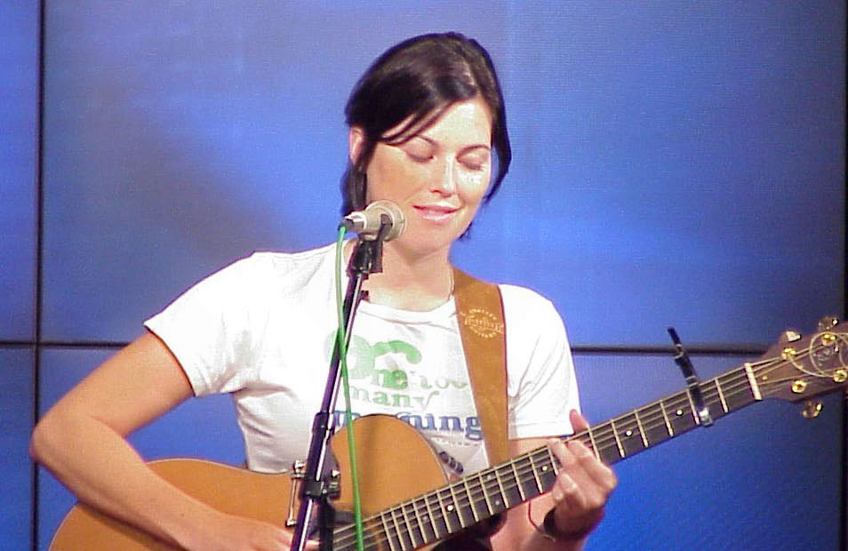 Singer-songwriter Tristan Prettyman